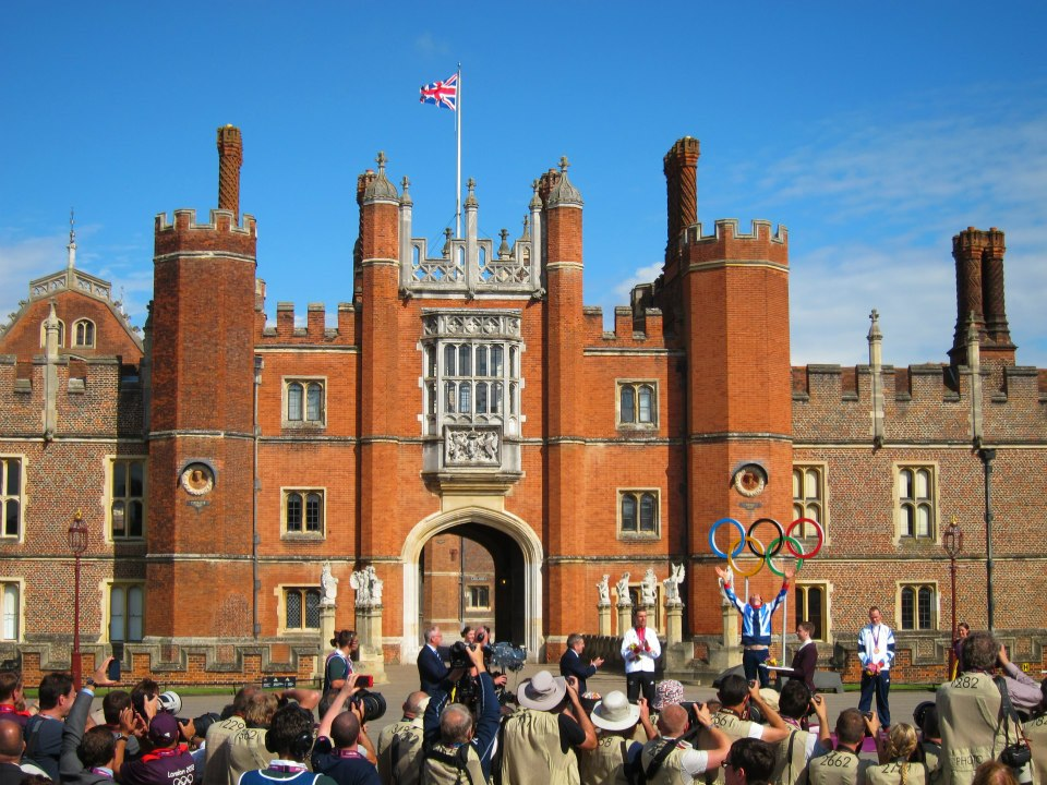 Cycling at the 2012 Summer Olympics – Men's road time trial